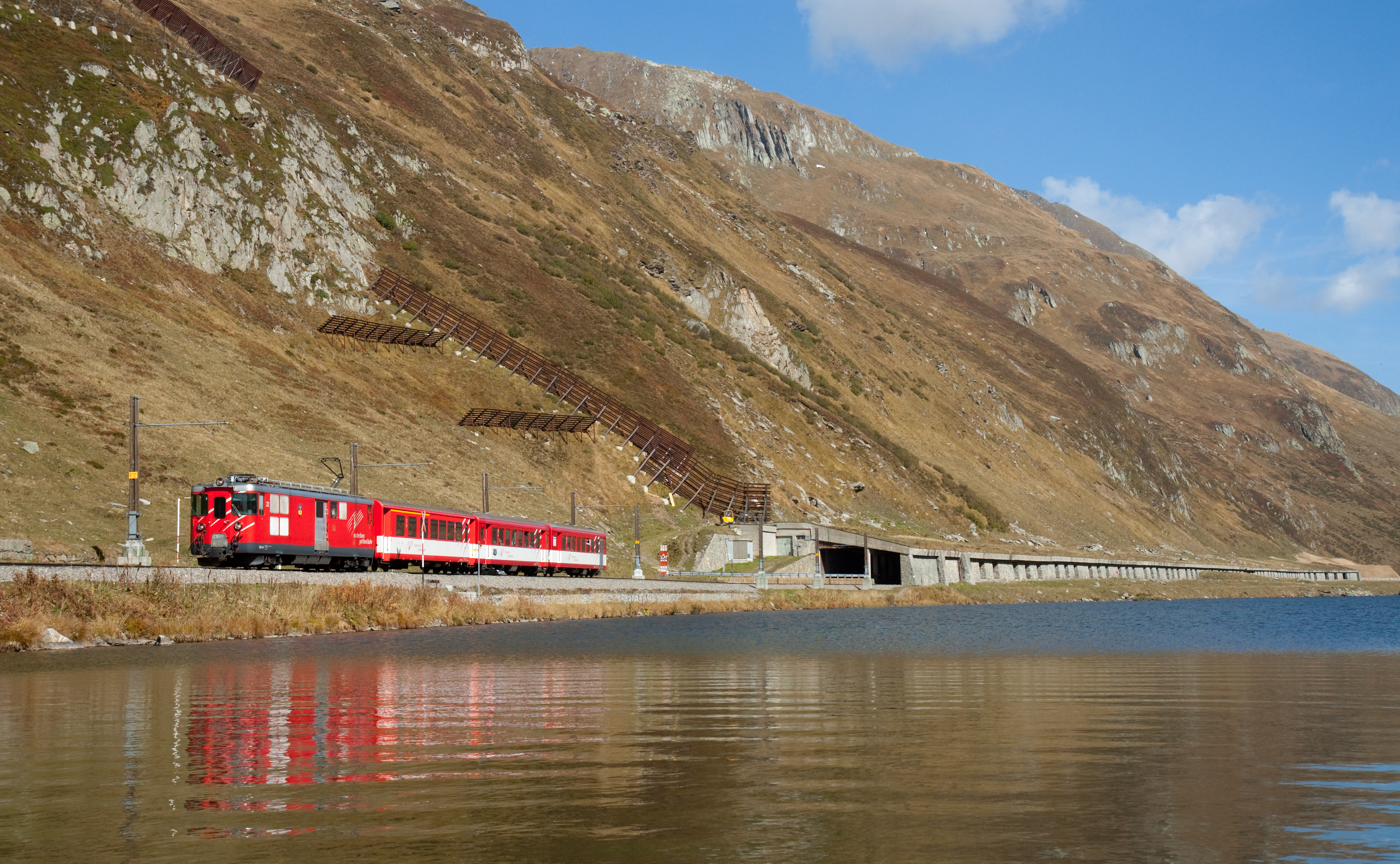 Matterhorn–Gotthard-Bahn push-pull train at the Oberalpsee, near the summit of Oberalp pass. The train is pulled by Deh 4/4 22 rack rail EMU.